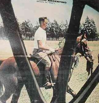 Carlos Alberto Moratorio. Argentina. Equestrian. Silver Medal in 1964 Summer Olympics. Gold Medal in 1966 World Championship.